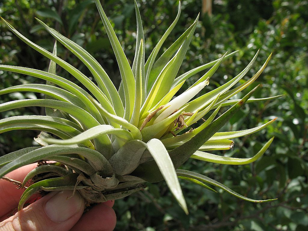 Tillandsia plagiotropica in cultivation at the Botanical Garden of Heidelberg, Germany.